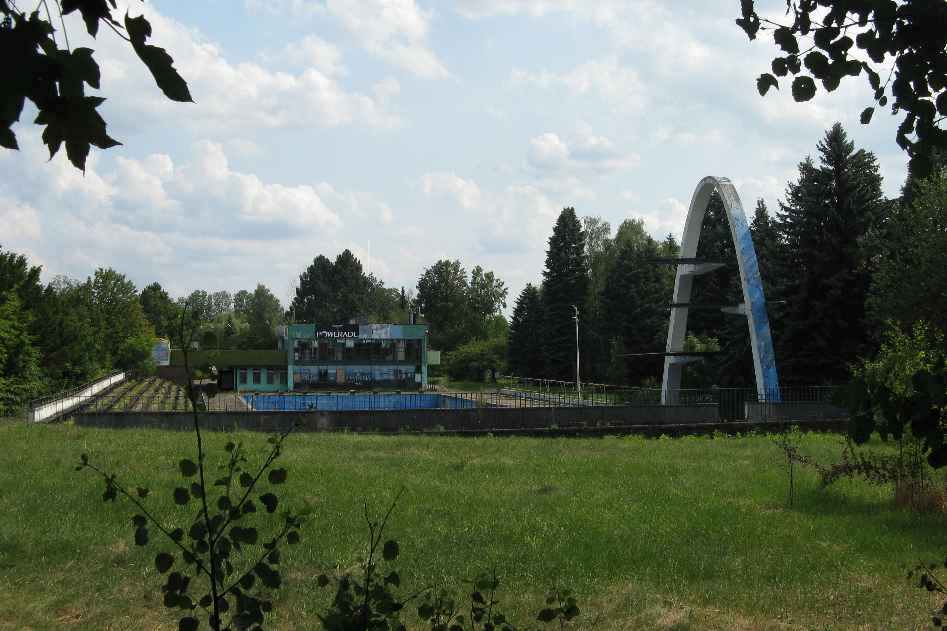 Remainings of Fala baths in Silesian Central Park in Chorzów, diving platform from the right. Wikidata has entry Q16570411 with data related to this item.